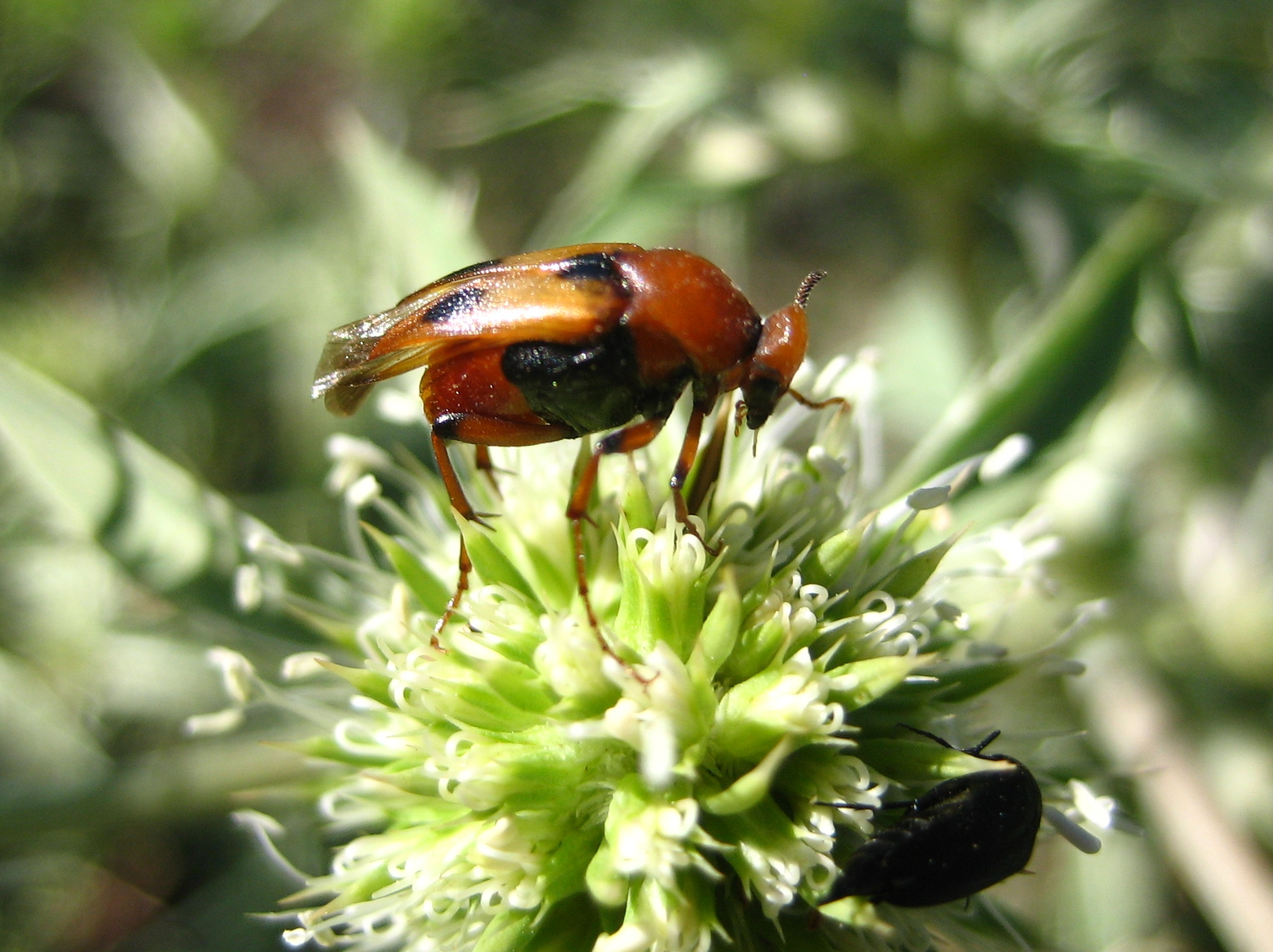 Macrosiagon on Eryngium campestre at Formiche Alto (Teruel, Spain)